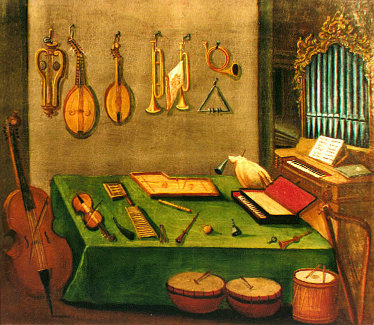 Late 18th- century educational picture board from the school of Zlatá Koruna (near Český Krumlov). Musical instruments.